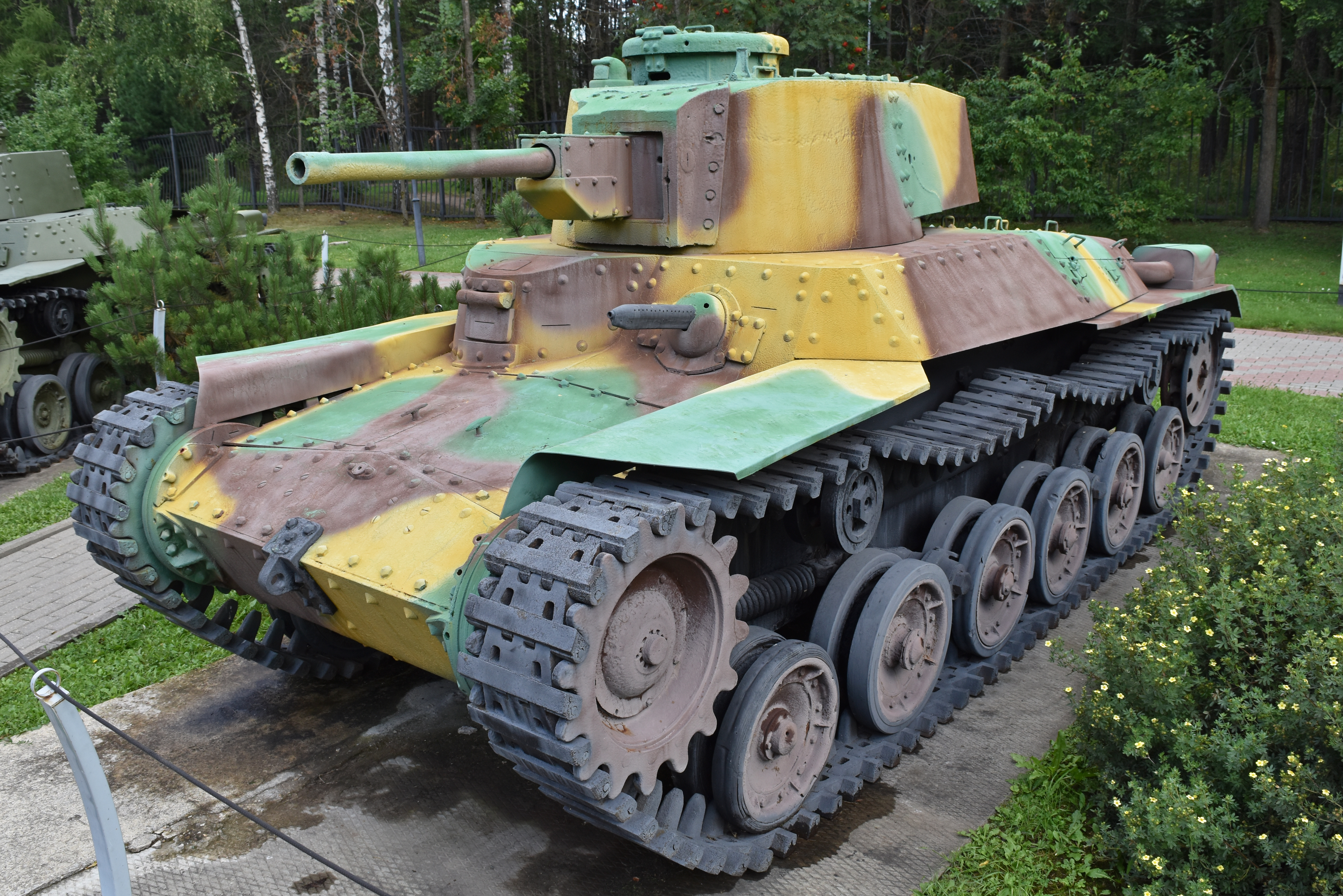 Japanese WW2 era Medium Tank Manufacturer:- Mitsubishi Built:- 1942 to 1943 Total Production:- 930 Main Armament:- 47mm Type 1 Tank gun The ShinHoTo Chi-Ha was probably the best tank produced by Japan up to 1945. It was an upgraded Chi-Ha with an enlarged three-man turret (ShinHoTo actually translates as ‘new turret’) and high-velocity 47mm gun. It first saw action at the 1942 Battle of Corregidor in the Philippines and served until the end of the war. This example was used by the 11th Tank Regiment on Shumshu Island, which is where it was recovered from. On display in ‘Victory Park’, Museum of the Great Patriotic War, Poklonnaya Hill, Moscow, Russia. 26th August 2017